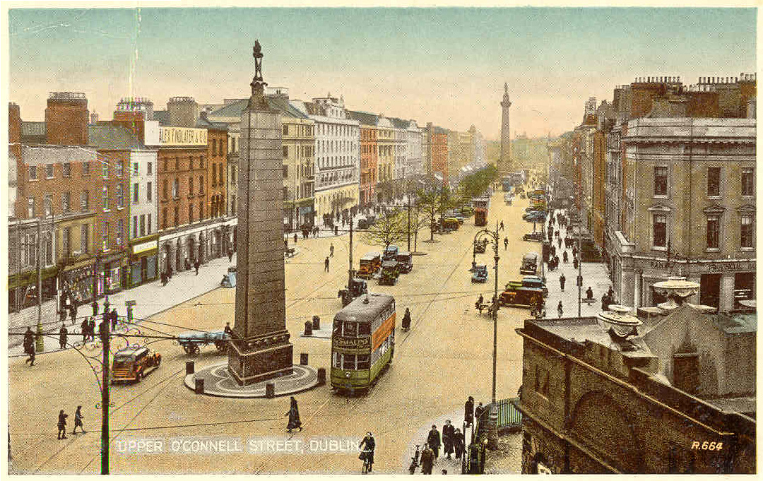 View looking south from Cavendish Row of Upper Upper O'Connell Street, Dublin. The Parnell Monument is in the left foreground, with Nelson's Pillar in the background.